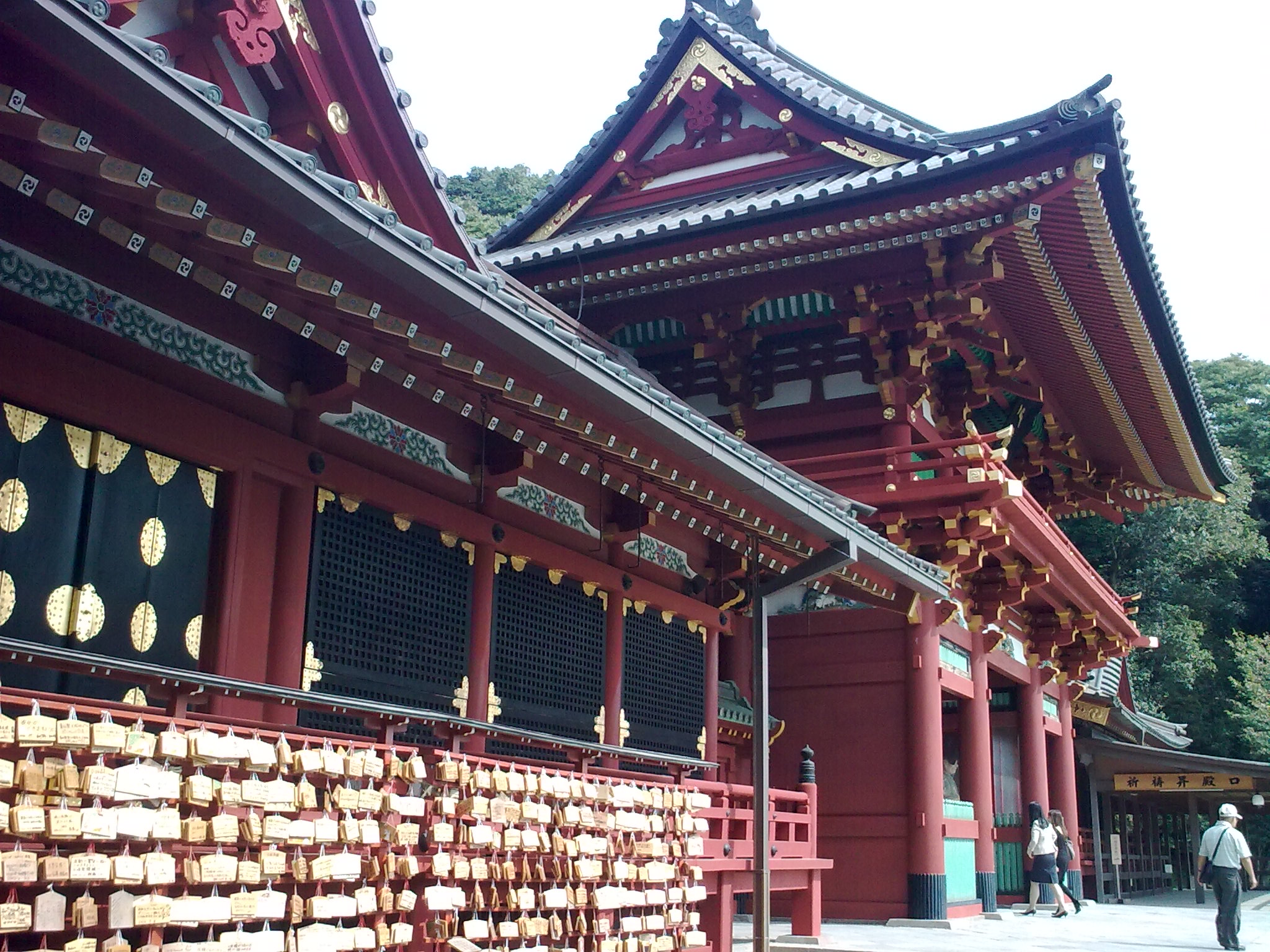 ema, Tsurugaoka Hachimangu, Kamakura, Japan